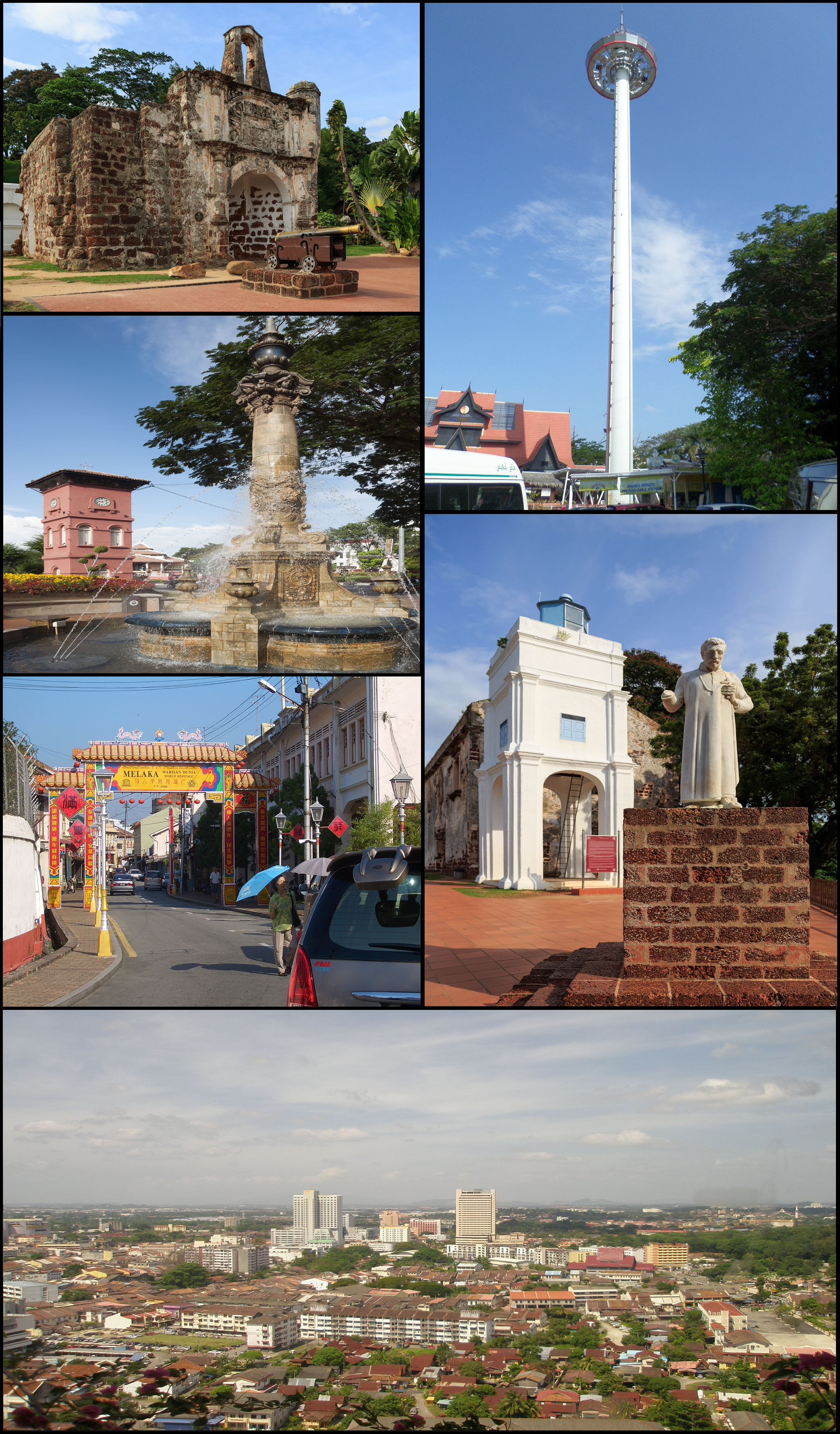 A composite image of some sights in Malacca City.